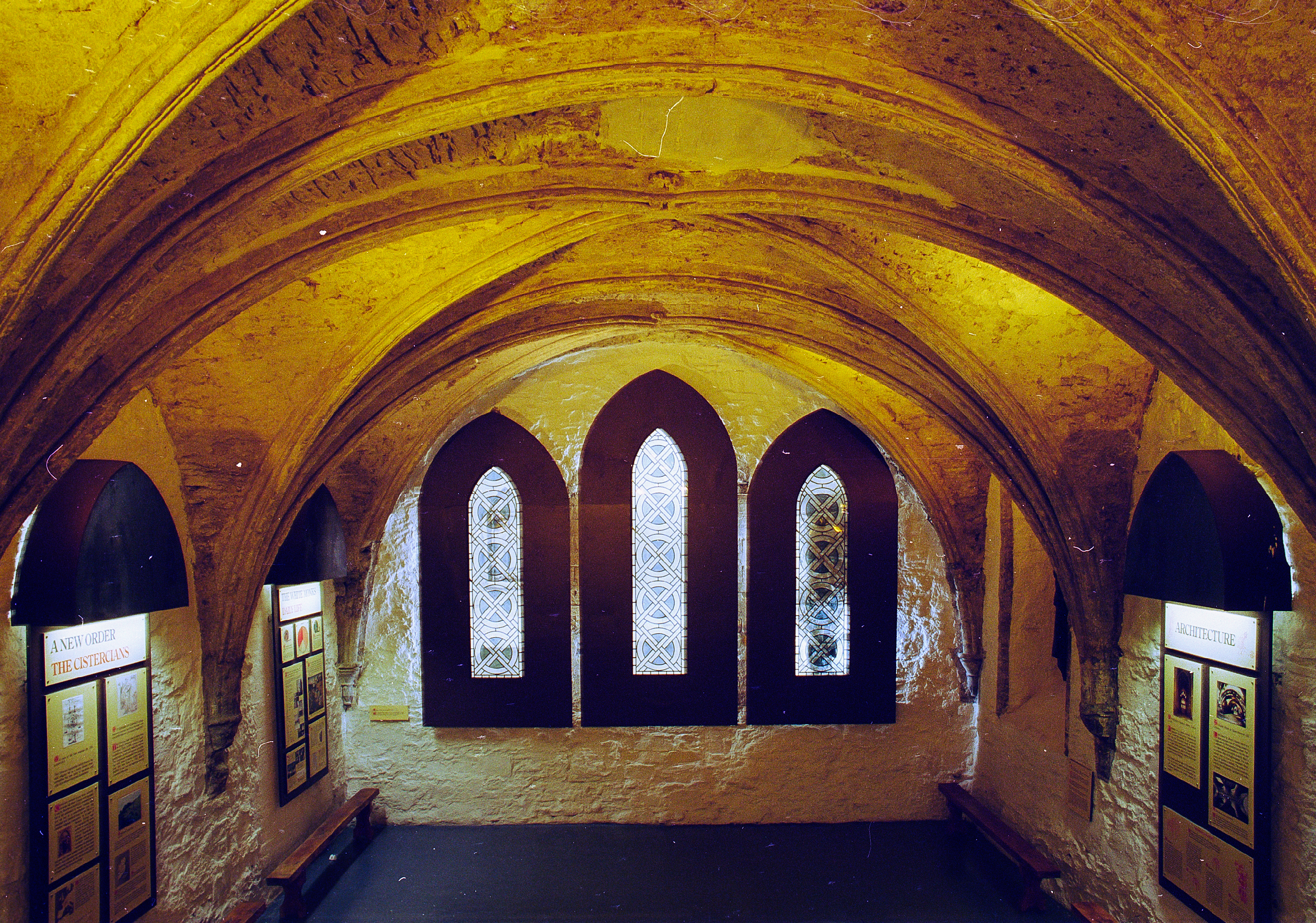 Chapter room of St. Mary's Abbey.